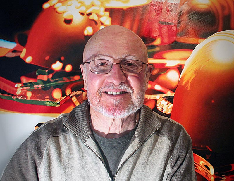 Photograph of Canadian artist John Hall, born 1943, taken in 2011